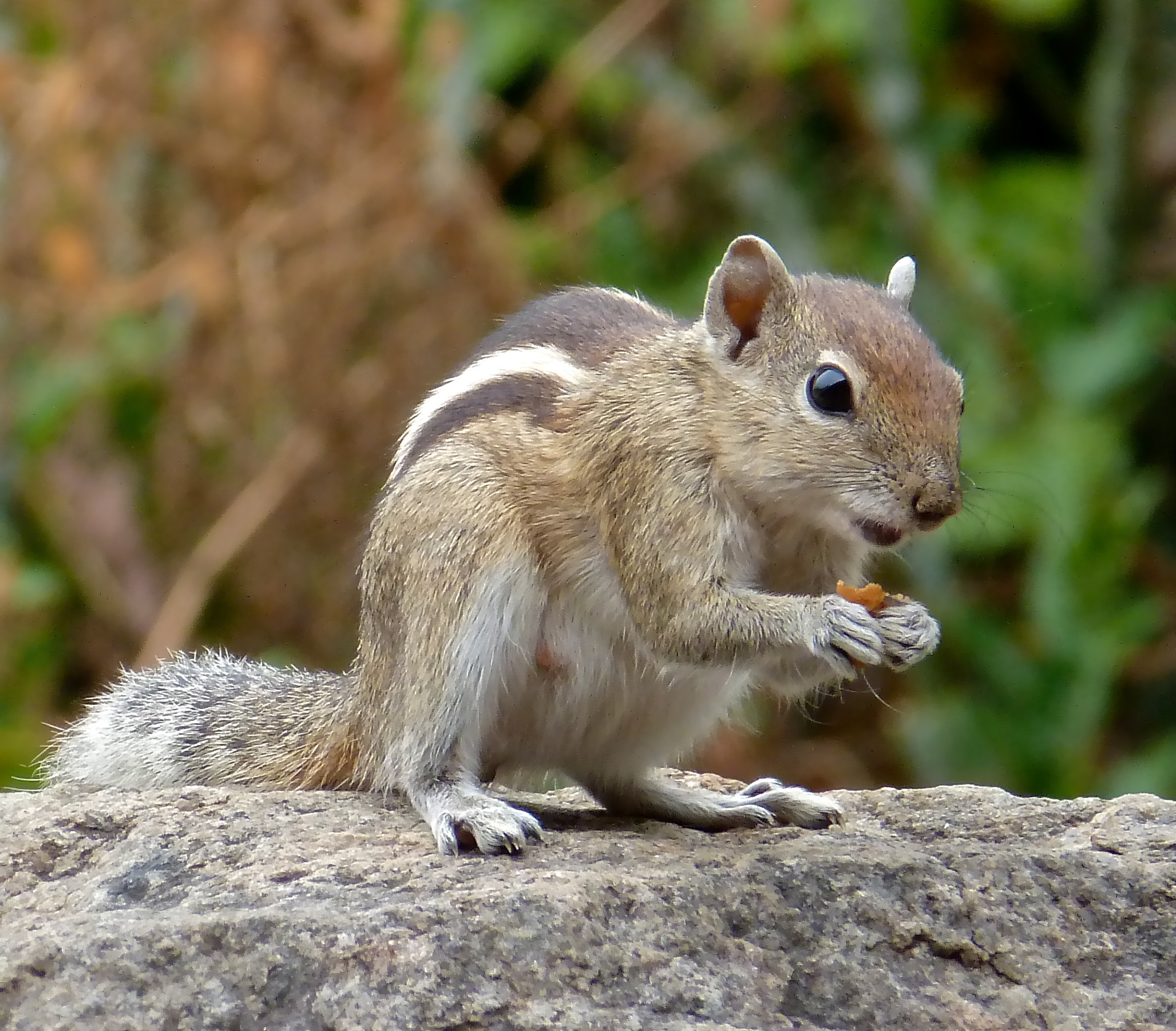 So cute... The Indian palm squirrel (Funambulus palmarum) also known as three-striped palm squirrel, is a species of rodent in the Sciuridae family that can be easily domesticated and kept as a pet. It is found naturally in India (south of the Vindhyas) and Sri Lanka. There is a cute myth about these little creatures. Apparently in the days of the Ramayama, when Rama was building a bridge to Sri Lanka to rescue Sita, this little fellow worked really hard to help, rolling his body in the wet sand, then depositing it in the water where the bridge was being built. He worked so tirelessly, that he caught Rama's attention. When the whole episode was over and Sita rescued, Rama picked him up to thank him for his efforts. At that time he stroked him along his back, and from then on it had 3 stipes down it's back from Rama's fingers!